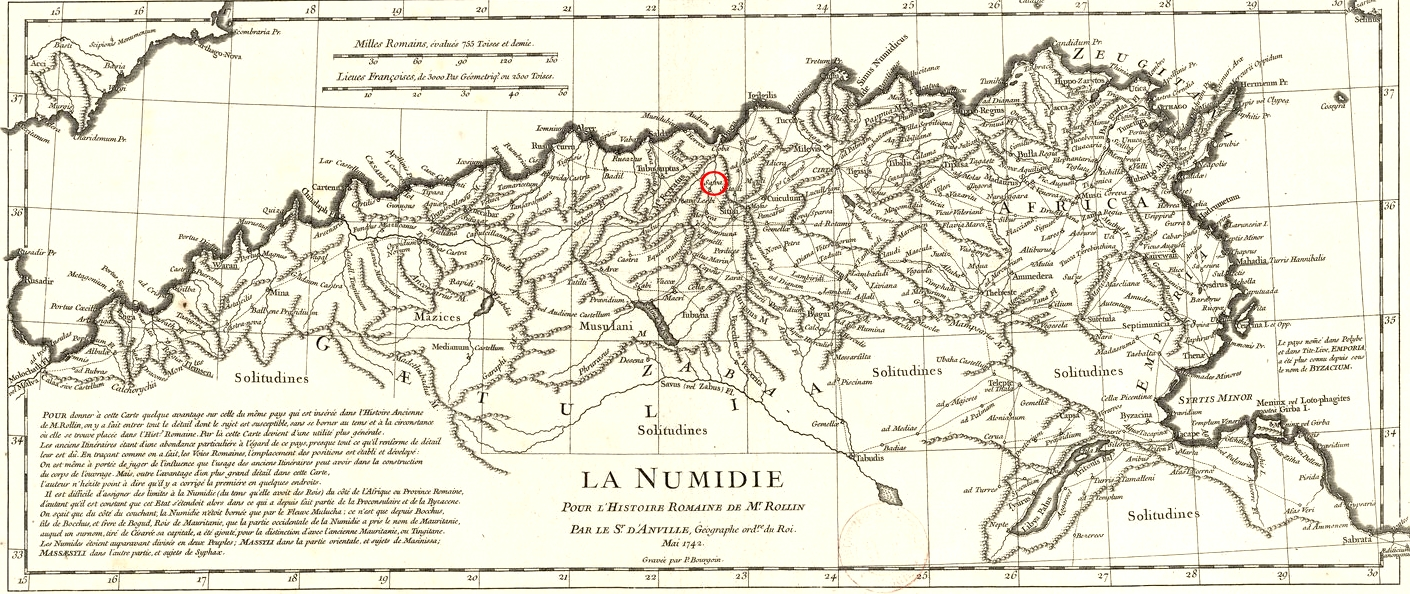 Numidie